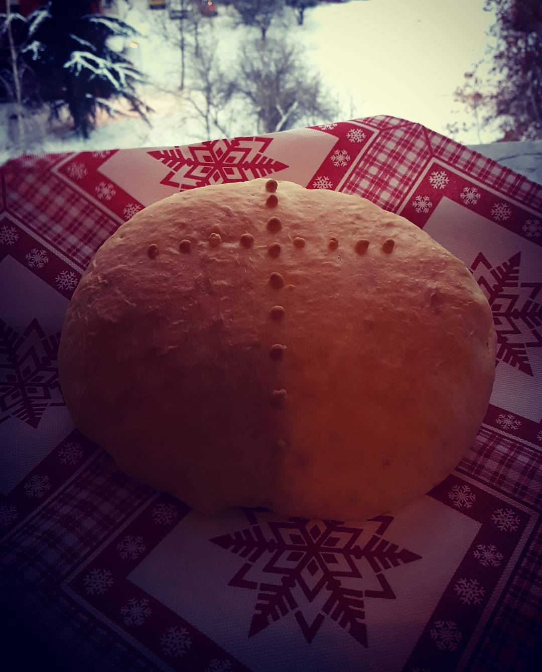 The traditional bread we make for Christmas eve- day before Christmas.